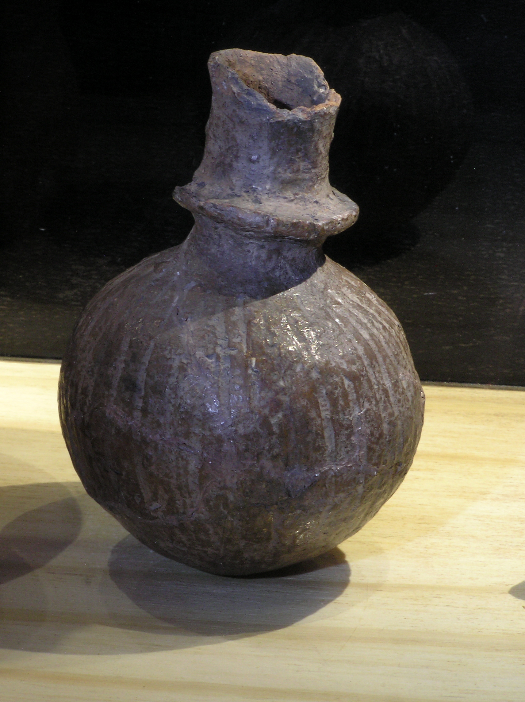 Neolithic bottle form Northern Germany, photographed at Archäologisches Museum Hamburg, Germany.